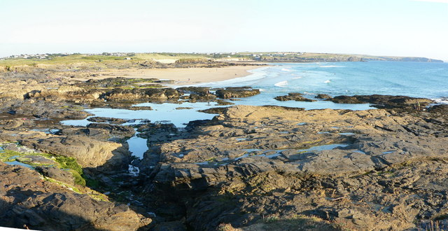 Boobies Bay towards Constantine